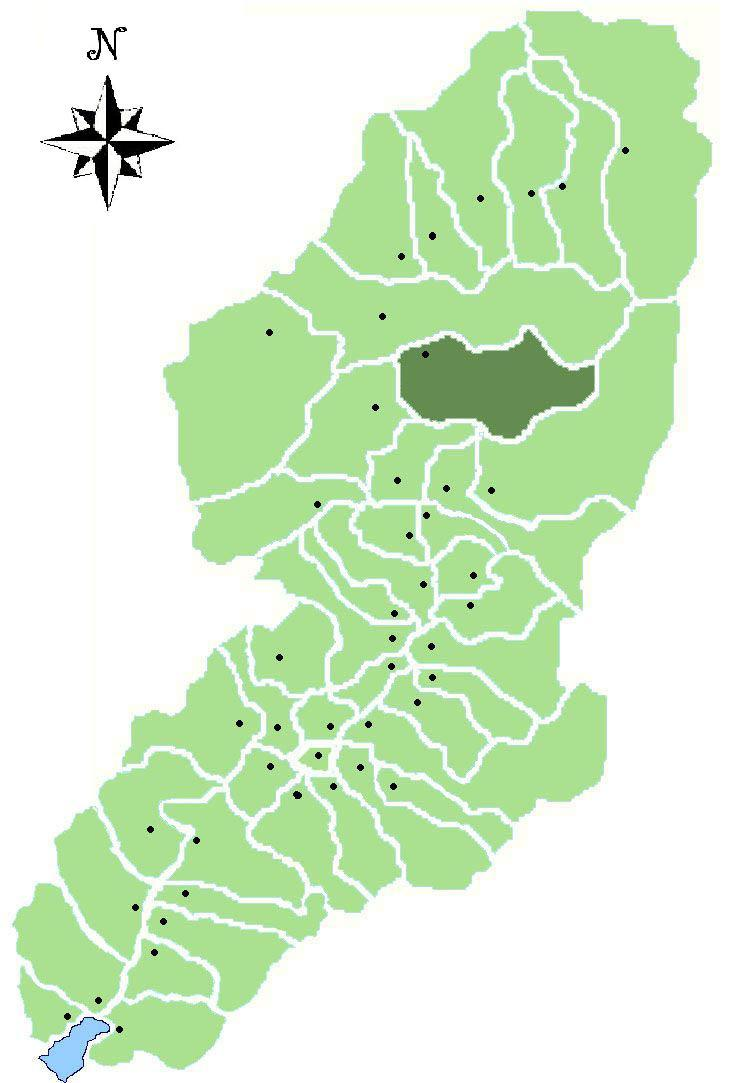 Map of the Comune di Sonico, Valle Camonica